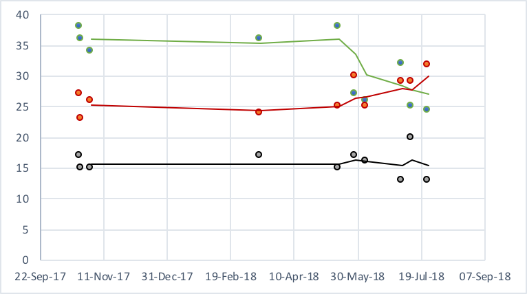 chart showing the opinion polls